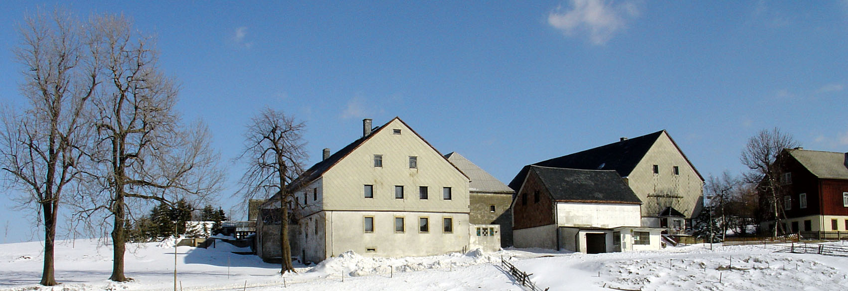 tavern "Erbgericht" with hall and previous shop Fürstenau